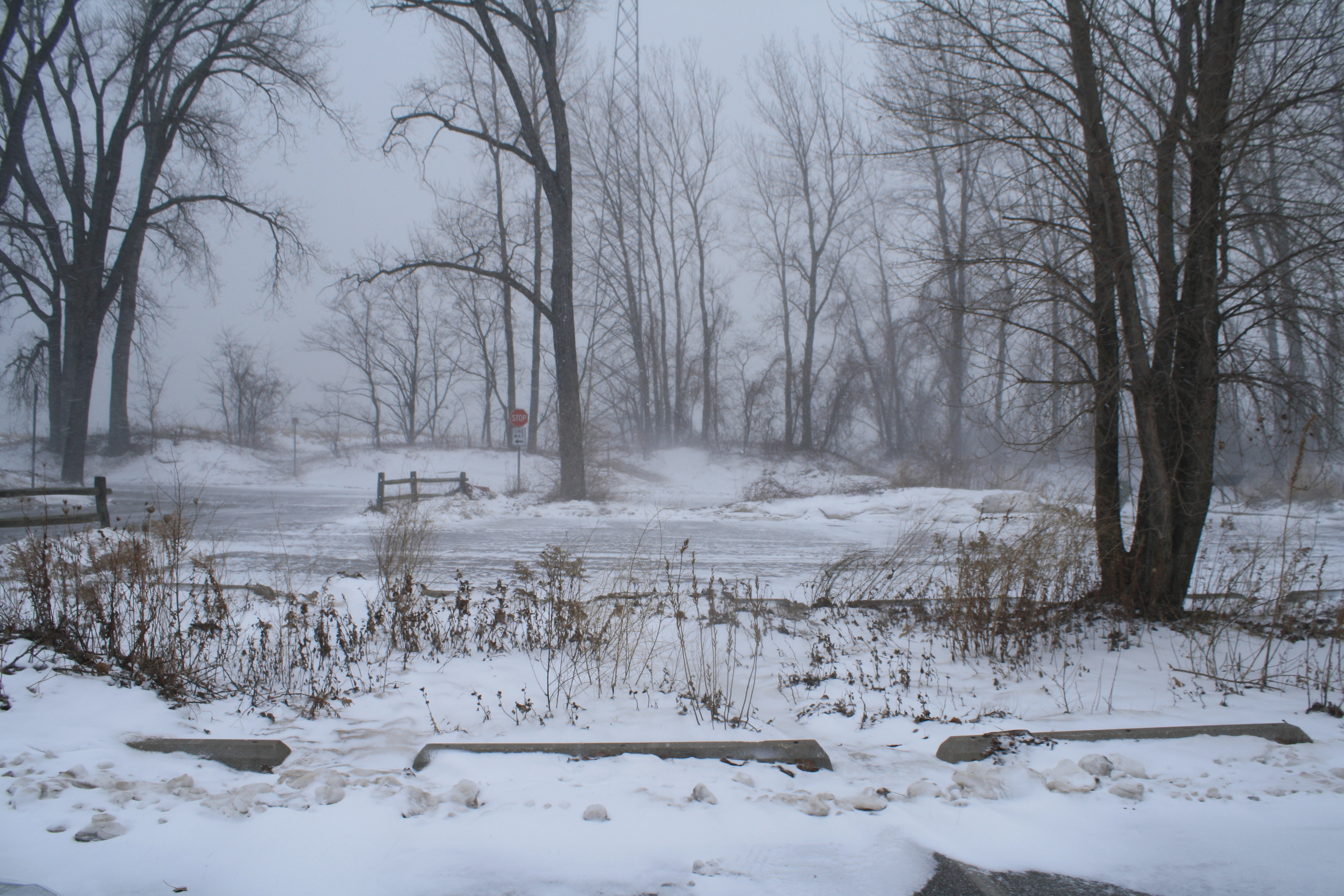 Snow blows around the peninsula at Presque Isle State Park.